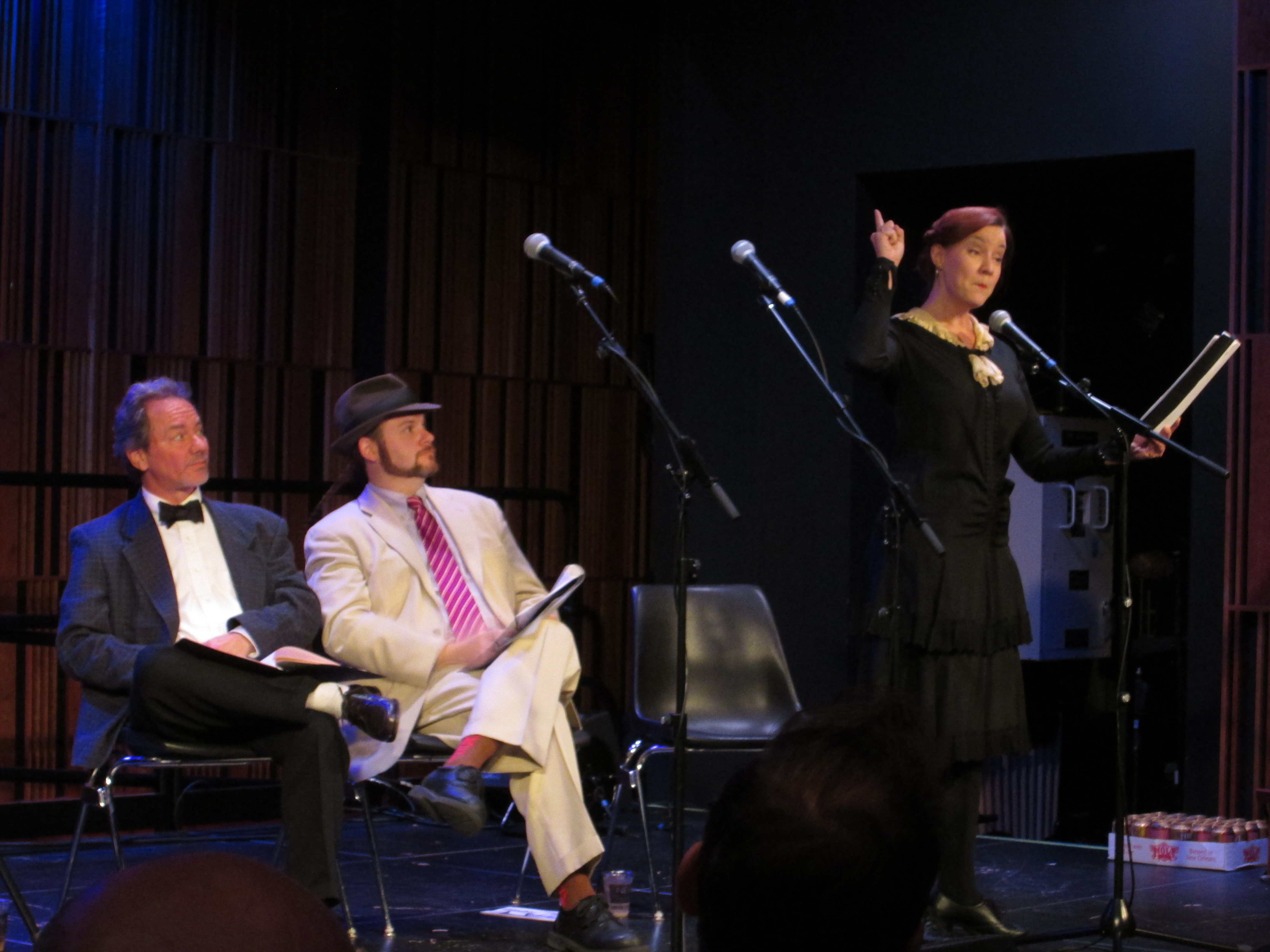 Old Mint Museum, French Quarter, New Orleans. "Unwanted Penance: A History of Prohibition in New Orleans". History presentation by Sally Asher, with cocktails, dramatic and comic readings, live music and audience sing-a-long, and burlesque dance.